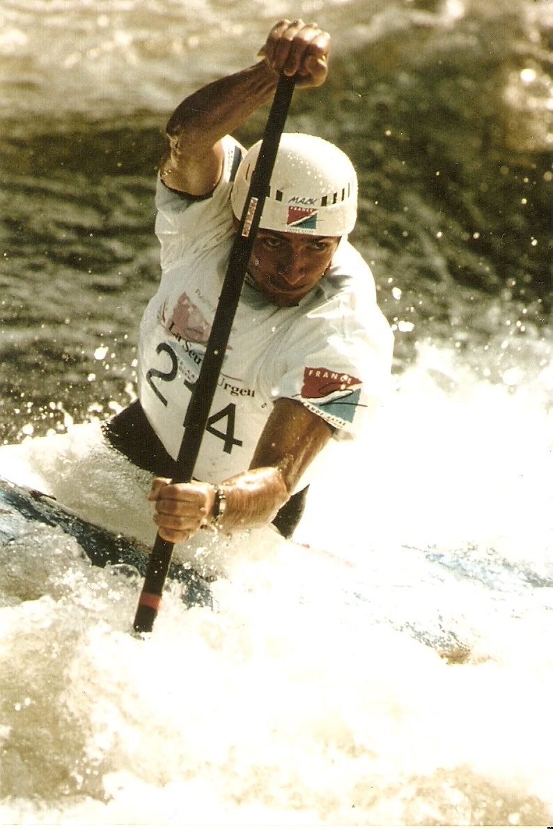 The french canoeist Jacky Avril at the Olympic Games of Barcelona (Spain), 1992, sailing into the olympic canoe-kayak pool of Seo de Urgel (Seu d'Urgell in catalan language)